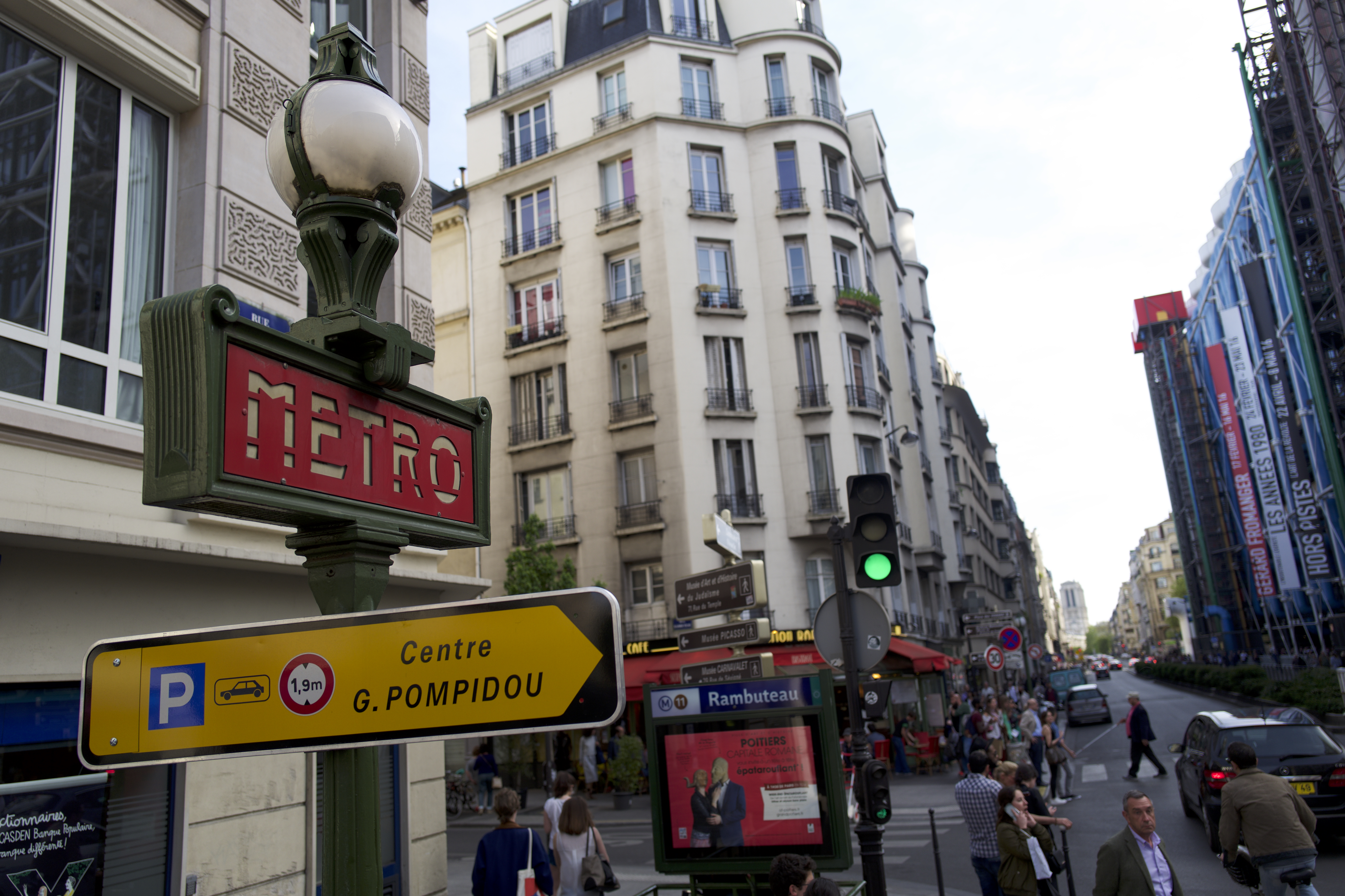 Métro station rue Rambuteau next to Centre Georges Pompidou at rue Rambuteau, in the background the City Hall and Notre Dame.